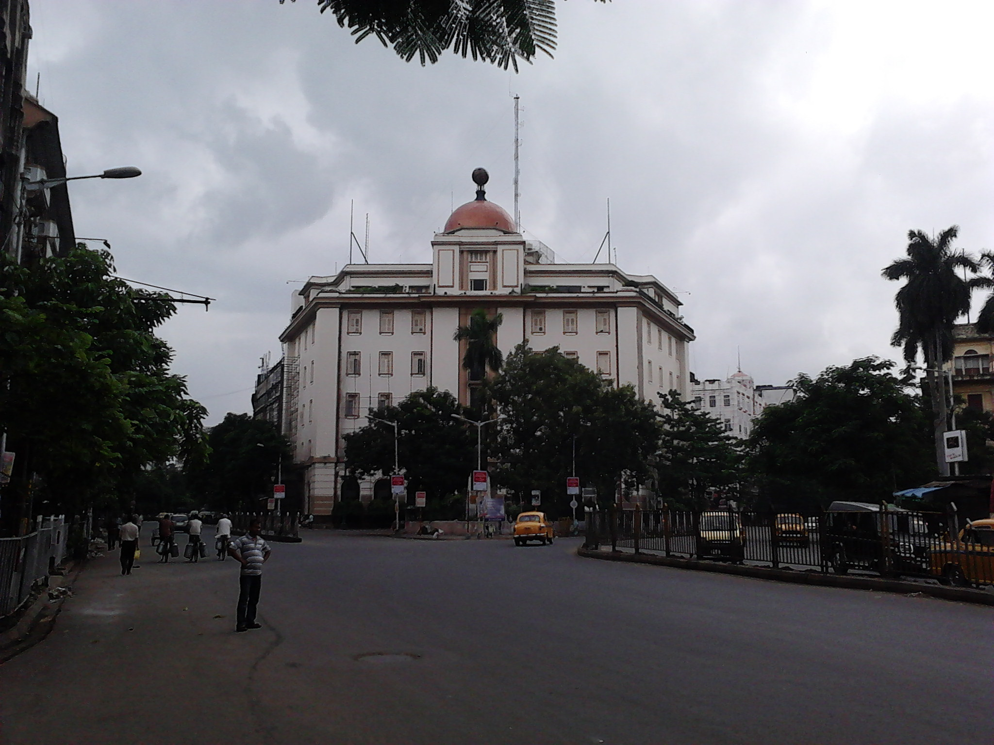 The Victoria House is headquarters of the Calcutta Electric Supply Corporation or CESC that supplies electricity to area under the Kolkata municipal corporation in the city of Kolkata, India, mainly but also few areas of Howrah, Hooghly, 24 Parganas (North) and 24 Parganas (South) districts of West Bengal, India.